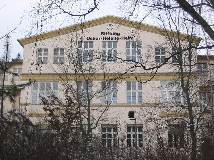 Oskar-Helene-Heim, Berlin-Zehlendorf. Main facade.